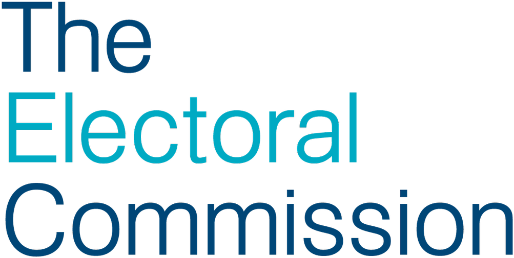 The Electoral Commission's logo